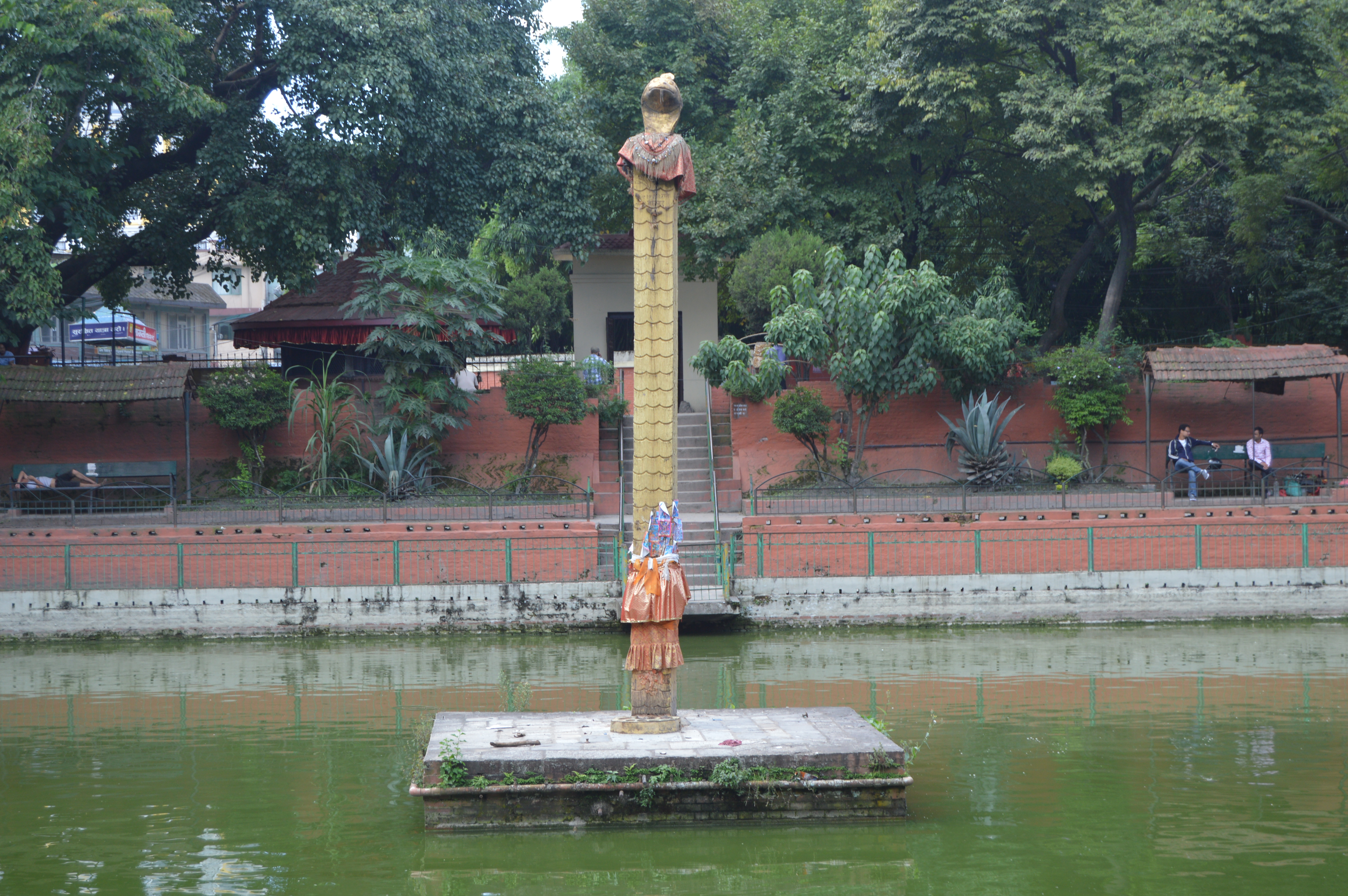 Naagpokhari